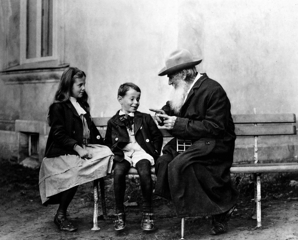 Tolstoy with his grand-children S.A and I.A Tolstoy, Kryokshino, Moscow province.